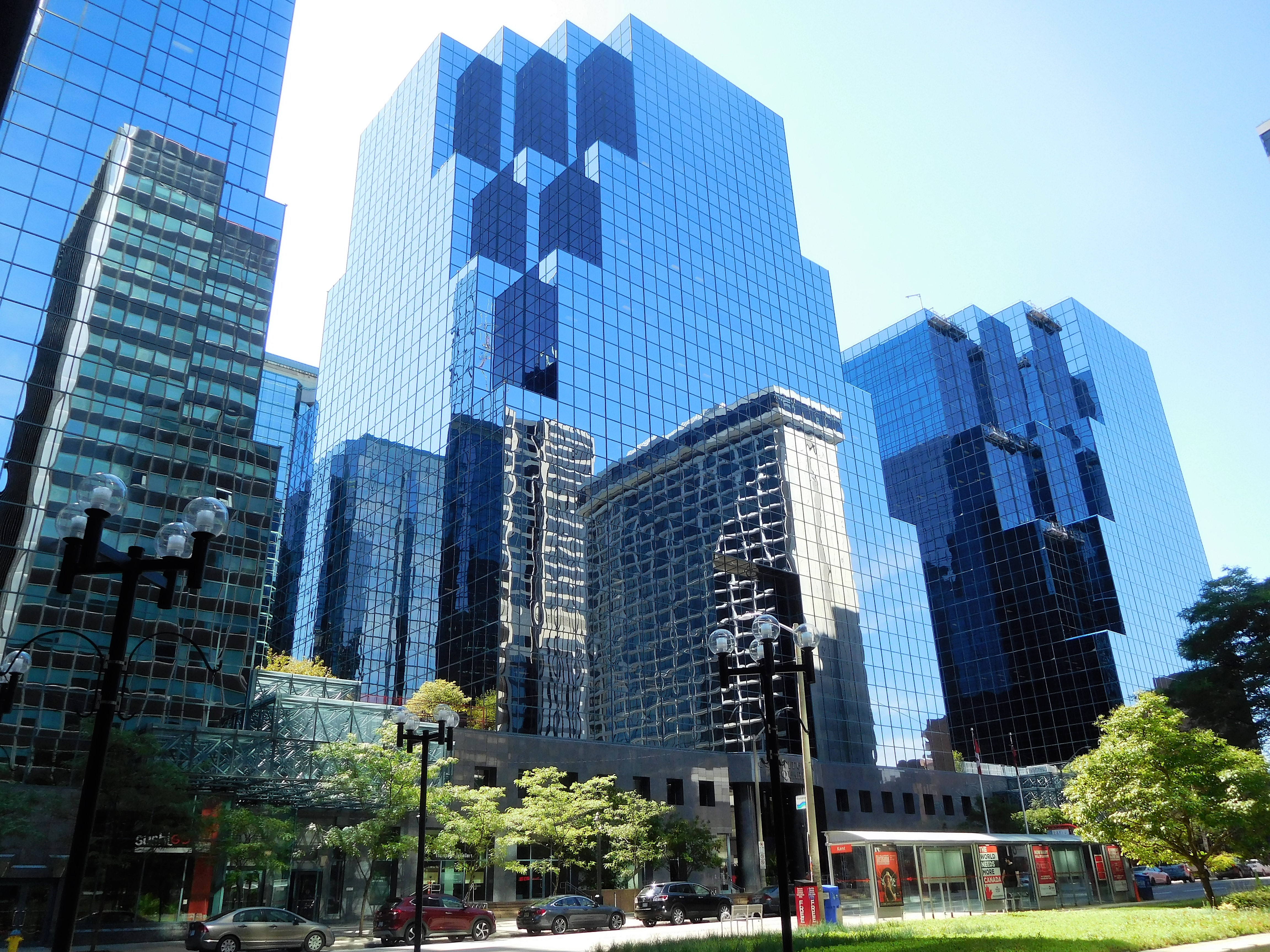 Constitution Square, 340-350-360 Albert Street, Ottawa Reflection of the Delta Hotel on the windows